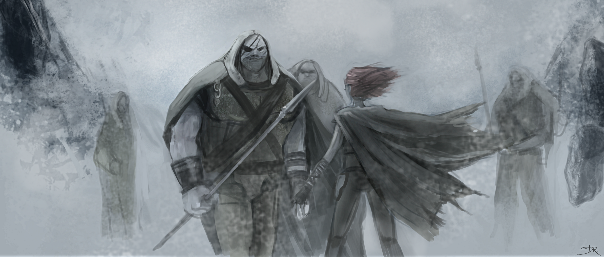 Concept-art done for Sintel, 3rd open-movie of the Blender Foundation. Artwork : David Revoy. Artwork made with Gimp-painter 2.6 and Mypaint 0.7.